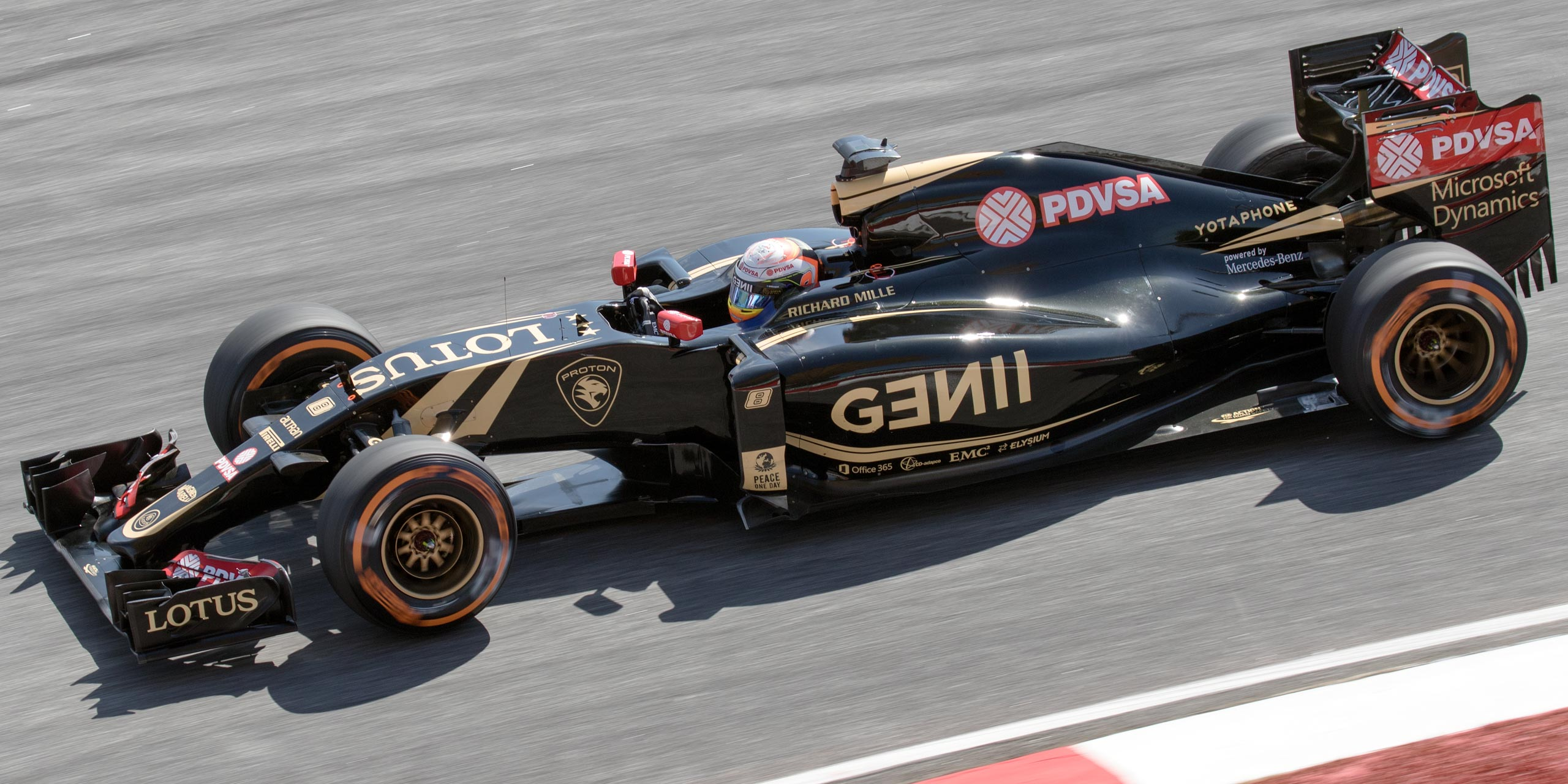 Formula One 2015 Rd.2 Malaysian GP: Romain Grosjean (Lotus)